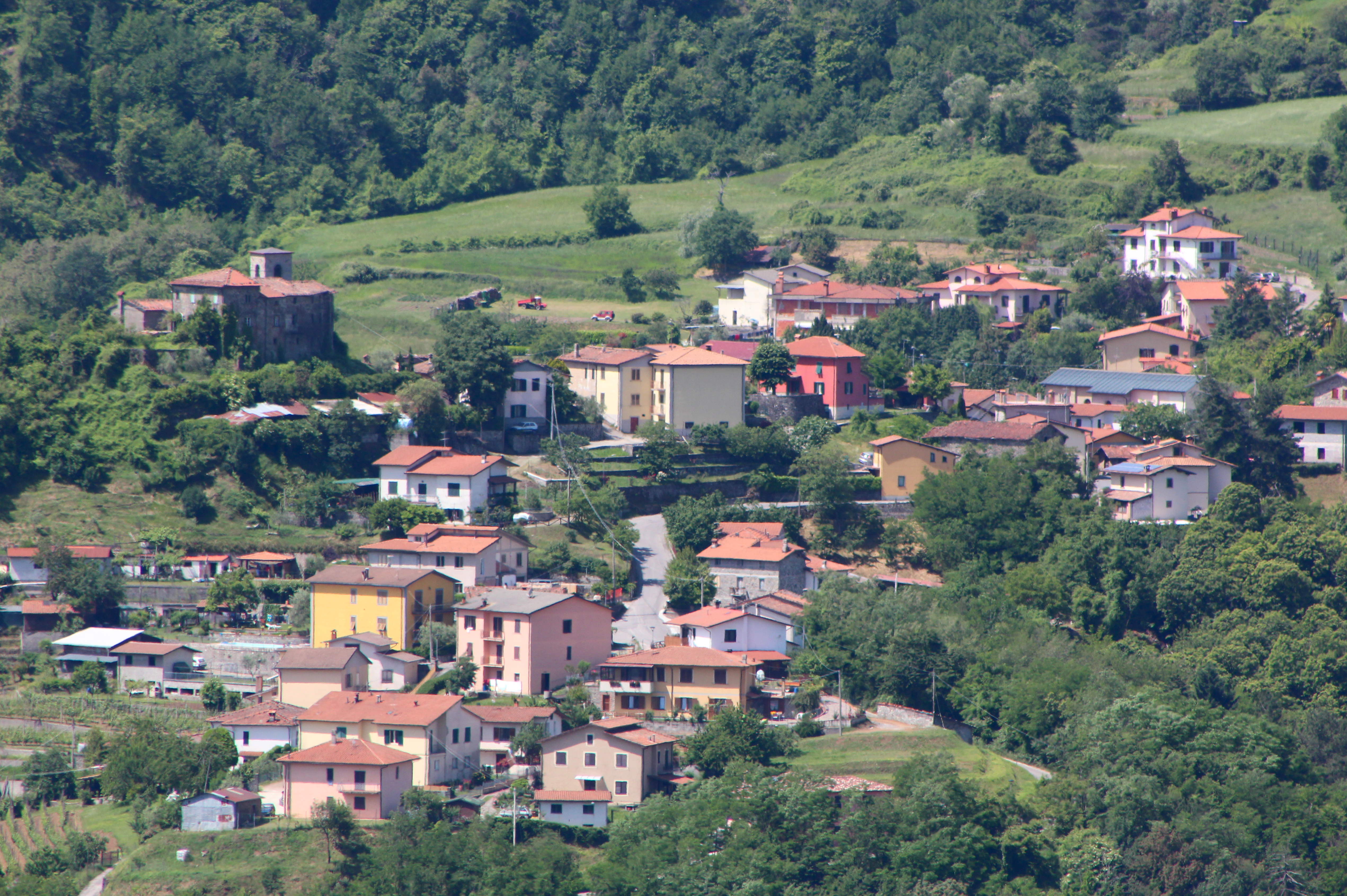 Panorama of Casciana, hamlet of Camporgiano, Garfagnana, Province of Lucca, Tuscany, Italy